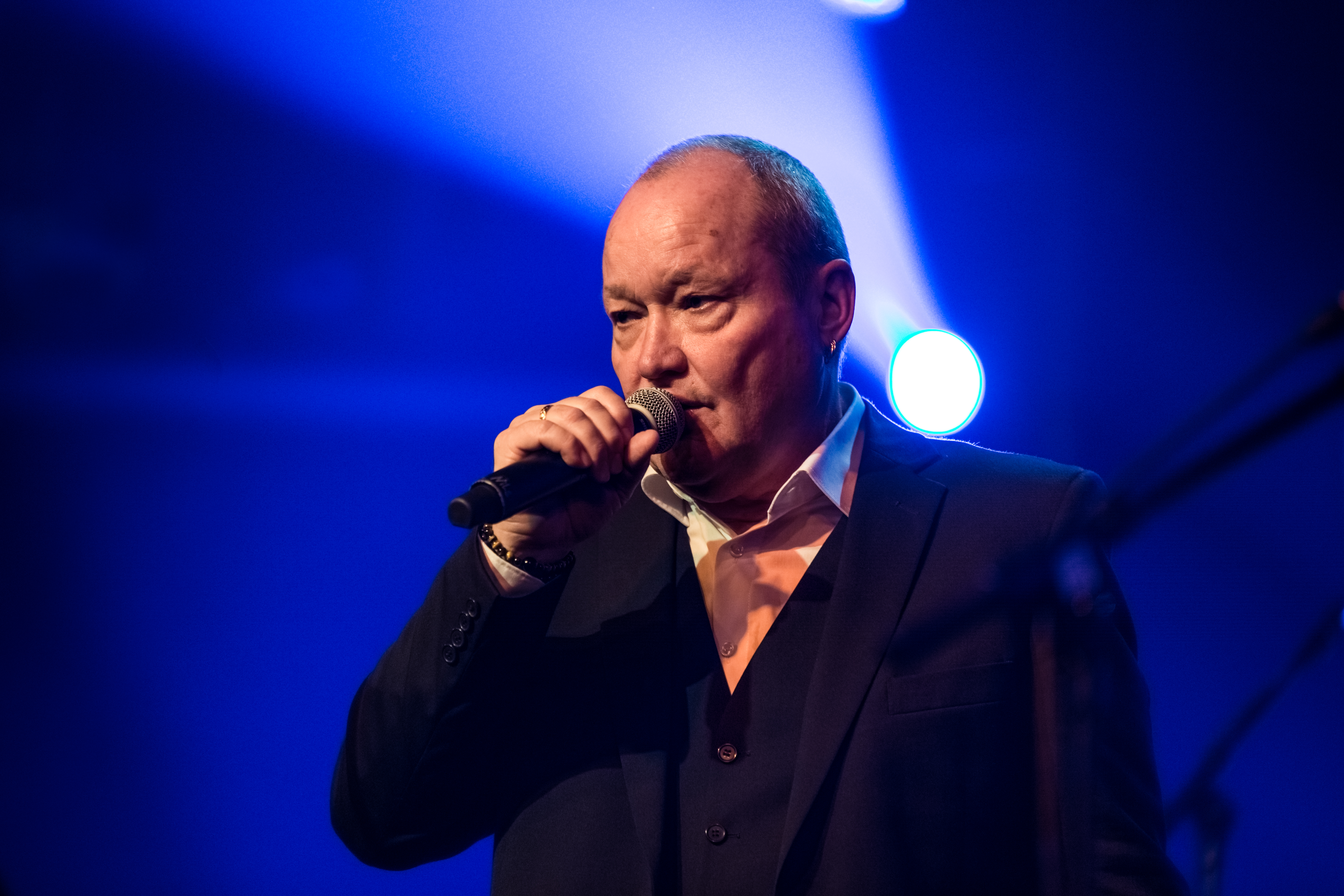 Nils Landgren Funk Unit - Leverkusener Jazztage 2017